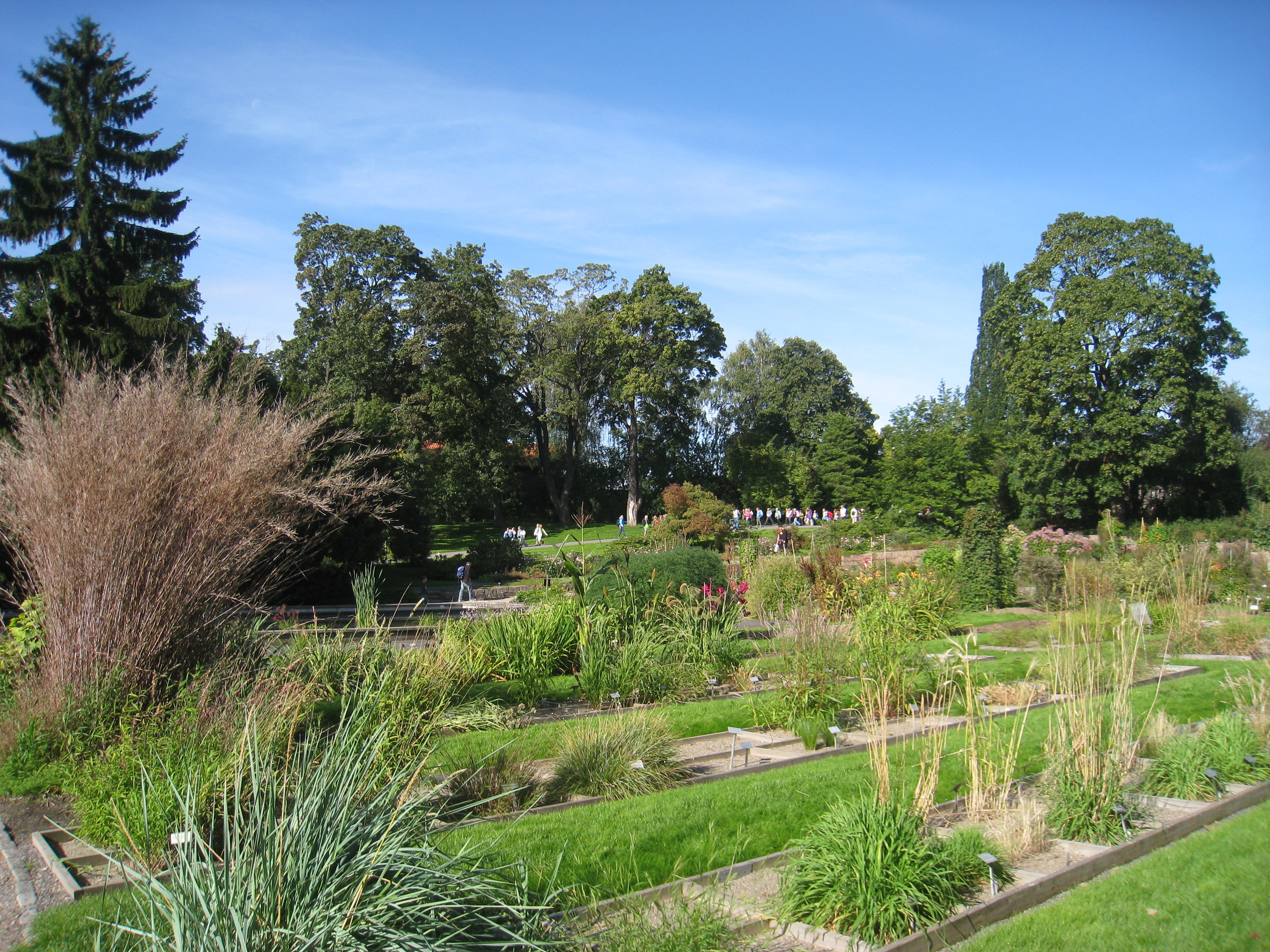 Oslo Botanical Garden, Oslo, Norway.